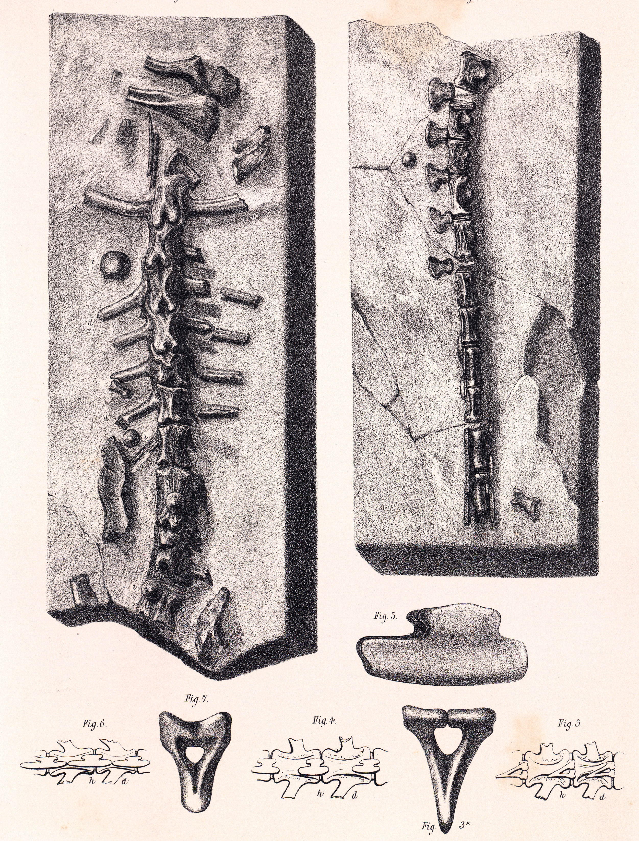 Caudal vertebræ of the Hylæosaurus (oweni), one sixth nat. size. Fig. 1. Ten vertebræ from the base of the tail. Fig. 2. Eleven vertebræ from near the end of the tail. Fig. 3. Under view of anterior caudal vertebræ, showing the form, and place of articulation, of the hæmapophyses. Fig. 4. Back view of a hæmal arch from the same (h) region of the tail (half nat. size). Fig. 4'. Under view of middle caudal vertebræ, showing the shape of the hæmapophyses, h. Fig. 5. Side view of a hæmal arch from a middle caudal vertebra (half nat. size). Fig. 6. Under view of caudal vertebræ beyond the middle of the tail. Fig. 7. Back view of a hæmal arch from one of these vertebræ (half nat. size). The further modification of the hæmapophyses in the posterior caudal vertebræ is shown in fig. 2. From the Wealden of Tilgate, Sussex. In the British Museum.